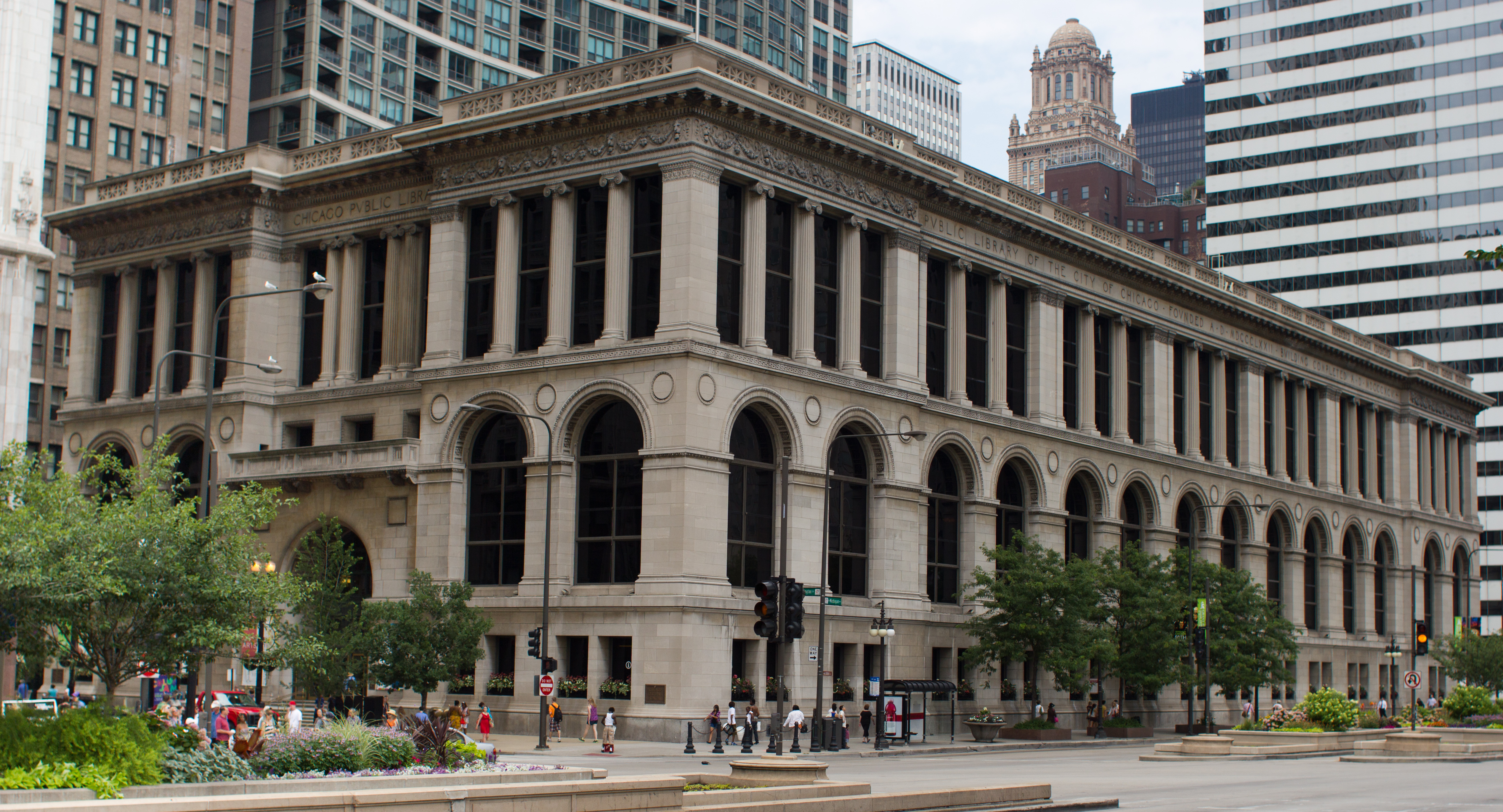 Chicago Public Library, Central Building